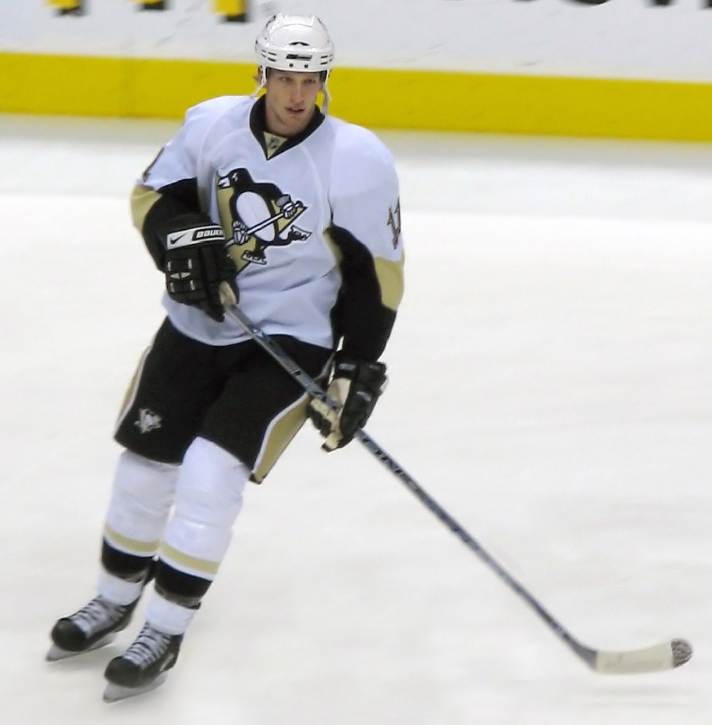 Jordan Staal warming up at GM Place